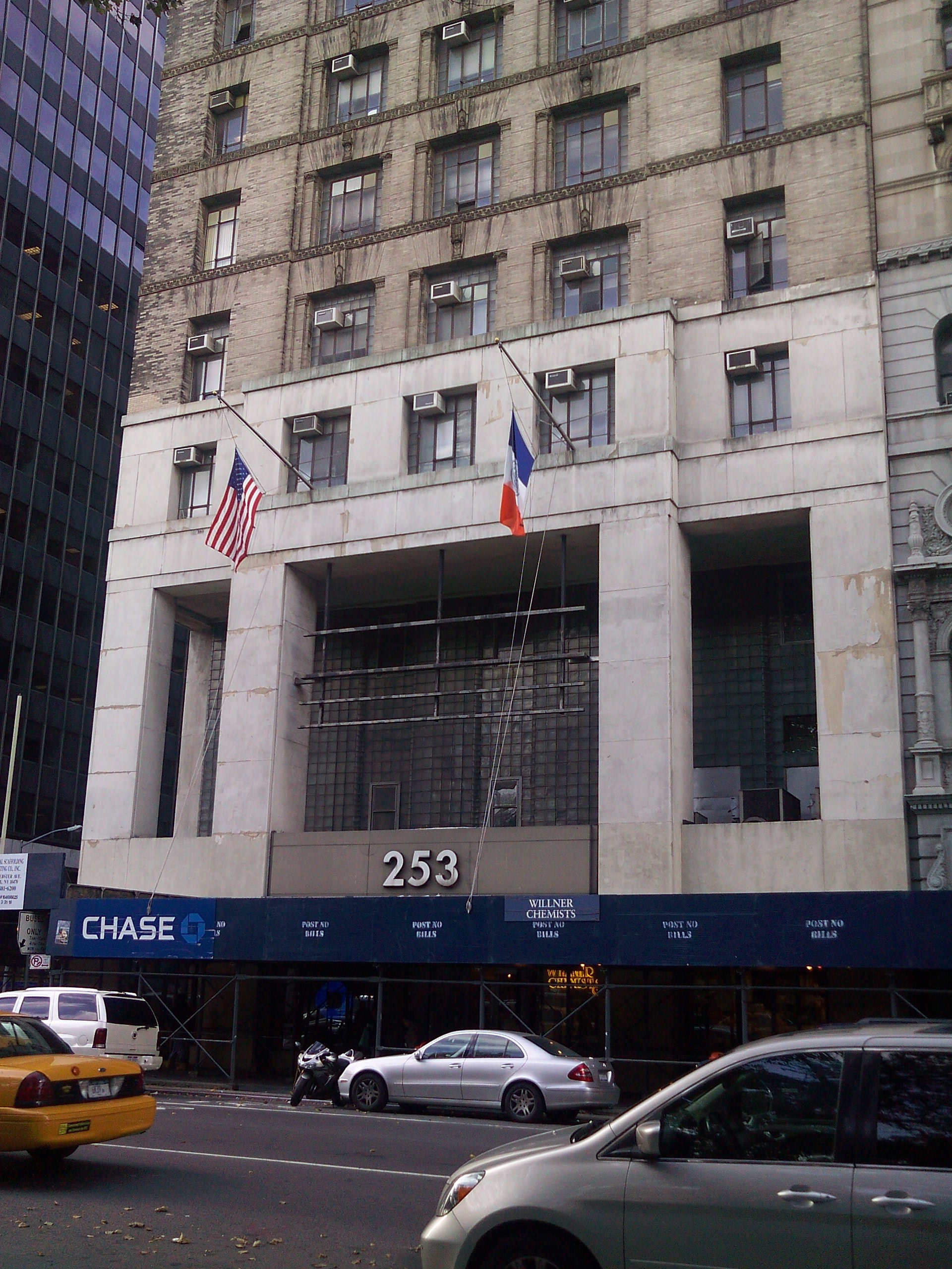 Postal Telegraph Building in New York City